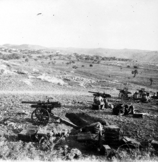 Hong Kong (Indian) Mountain gun battery in action with BL 2.75 inch guns. Photo taken during Australian Light Horse operations near Beit Tahta during the Jerusalem Operations in the Judean Hills in Palestine during World War I